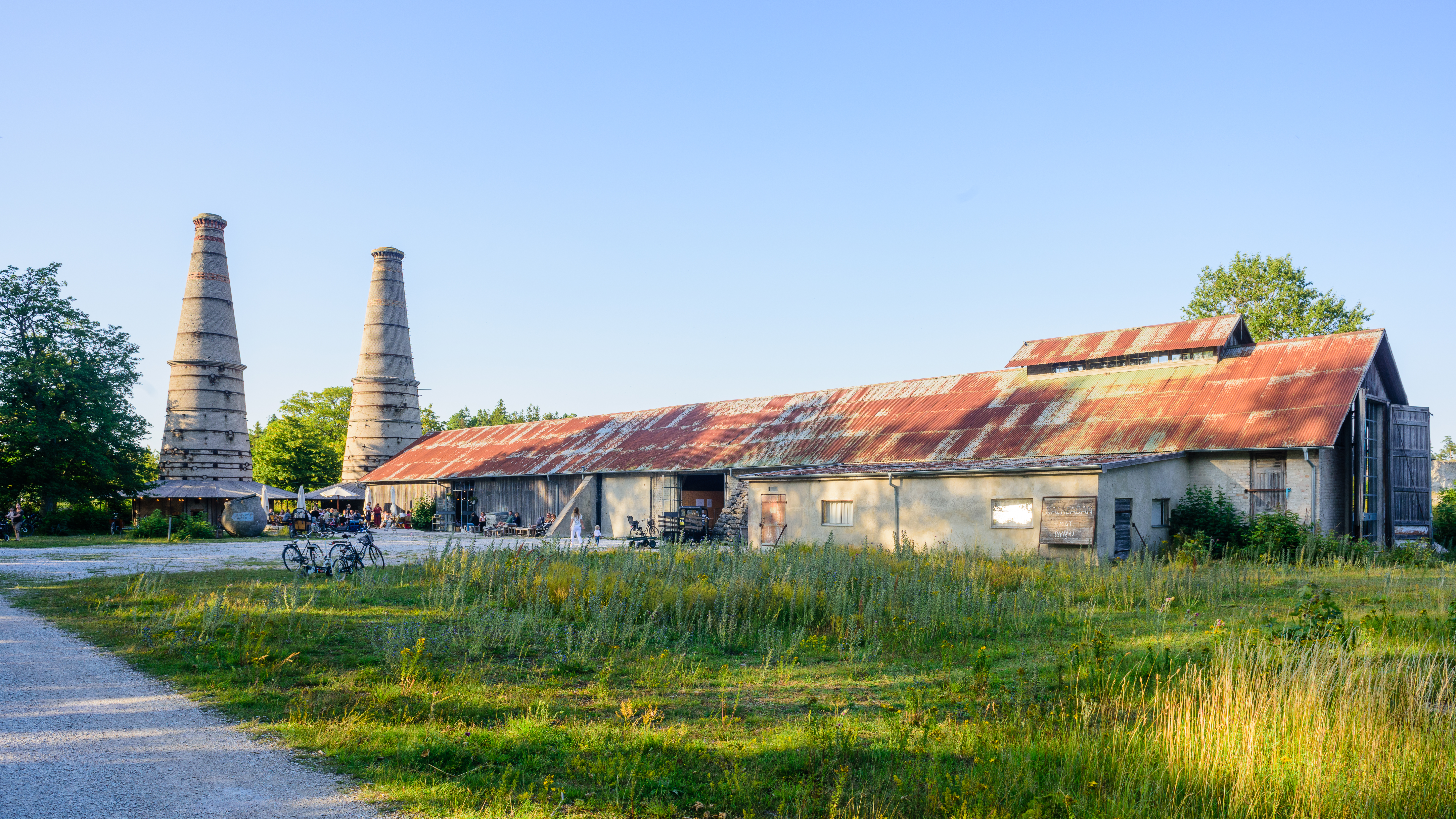 Former Bungenäs kalkbruk (Lime work) in Bungenäs, Gotland. Today used as a restaurant.